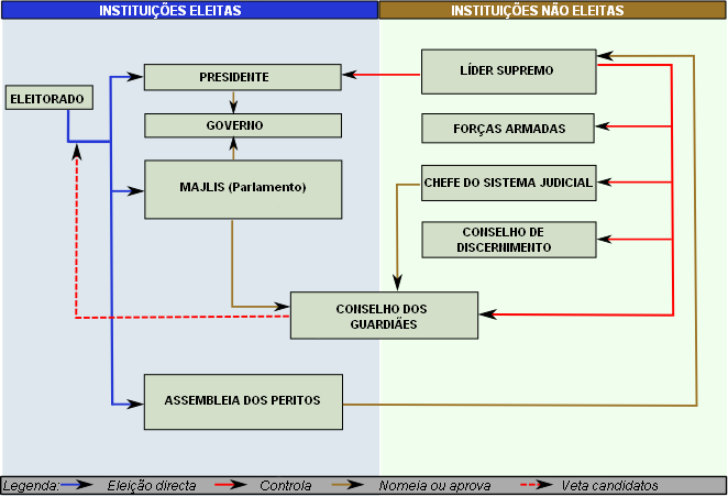 Political institutions of Iran.